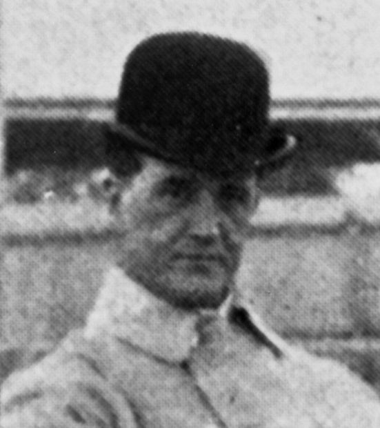 Taken at the Motor Gymkhana at the Brisbane Cricket Ground (The Gabba), 1908